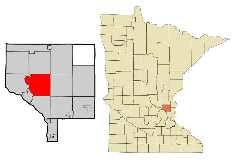 This map shows the incorporated and unincorporated areas in Anoka County, highlighting Andover in red. This file has been updated to reflect the recent incorporation of new municipalities.